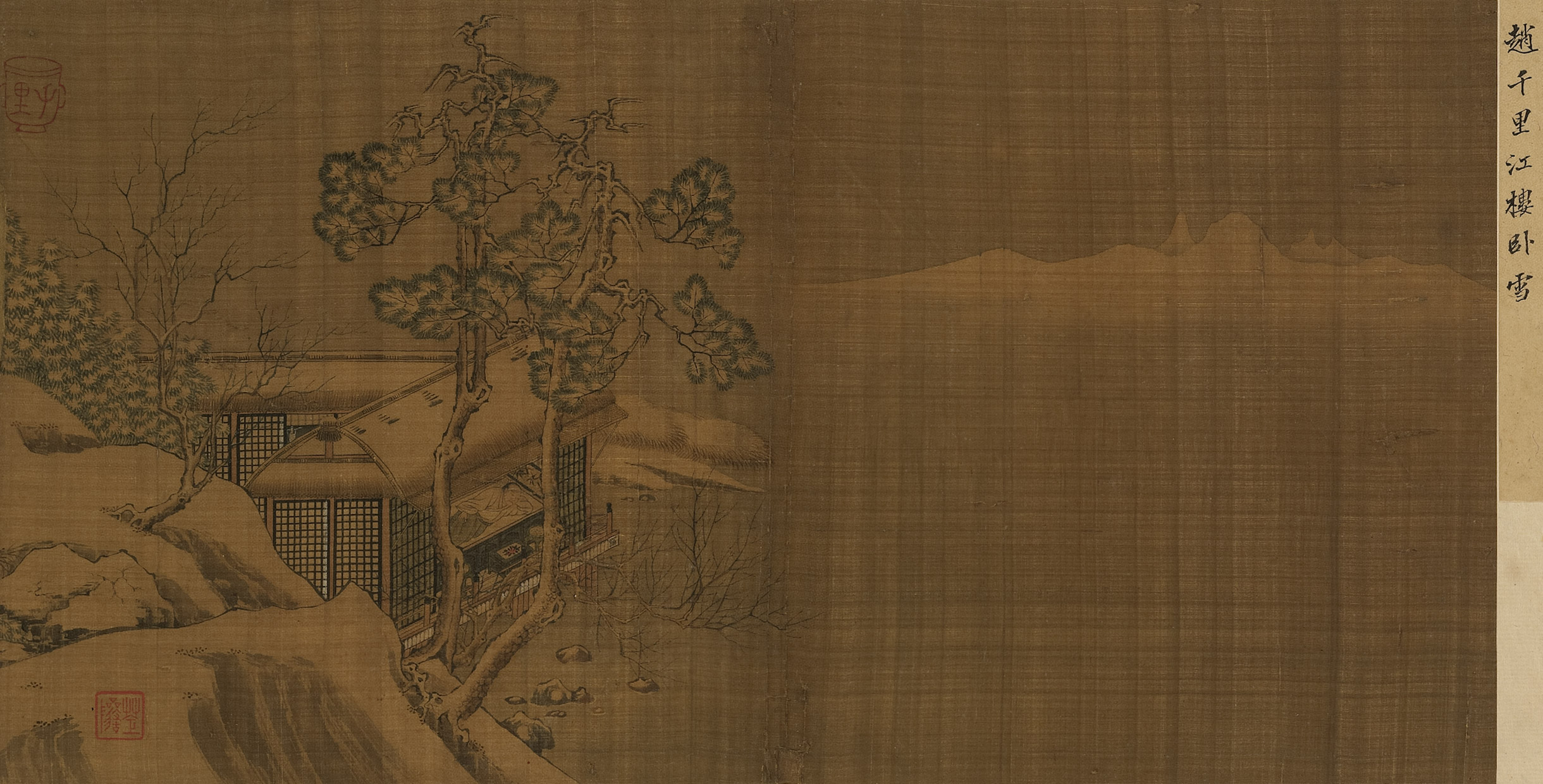 Zhao Boju (attr.), Riverside Hall in Snow, 12th century, Taipei NPM